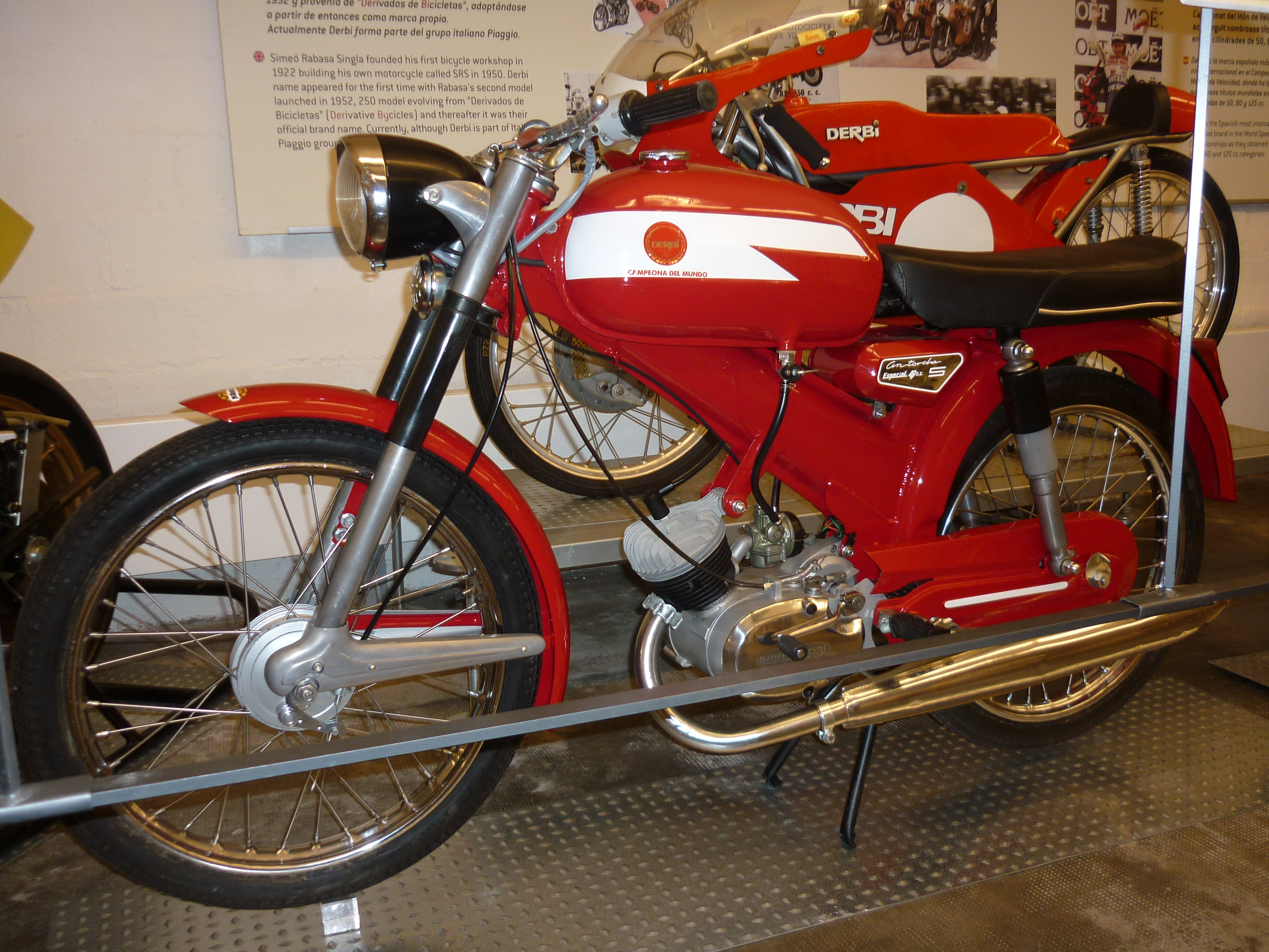 Derbi Antorcha Especial S 49cc, 1974